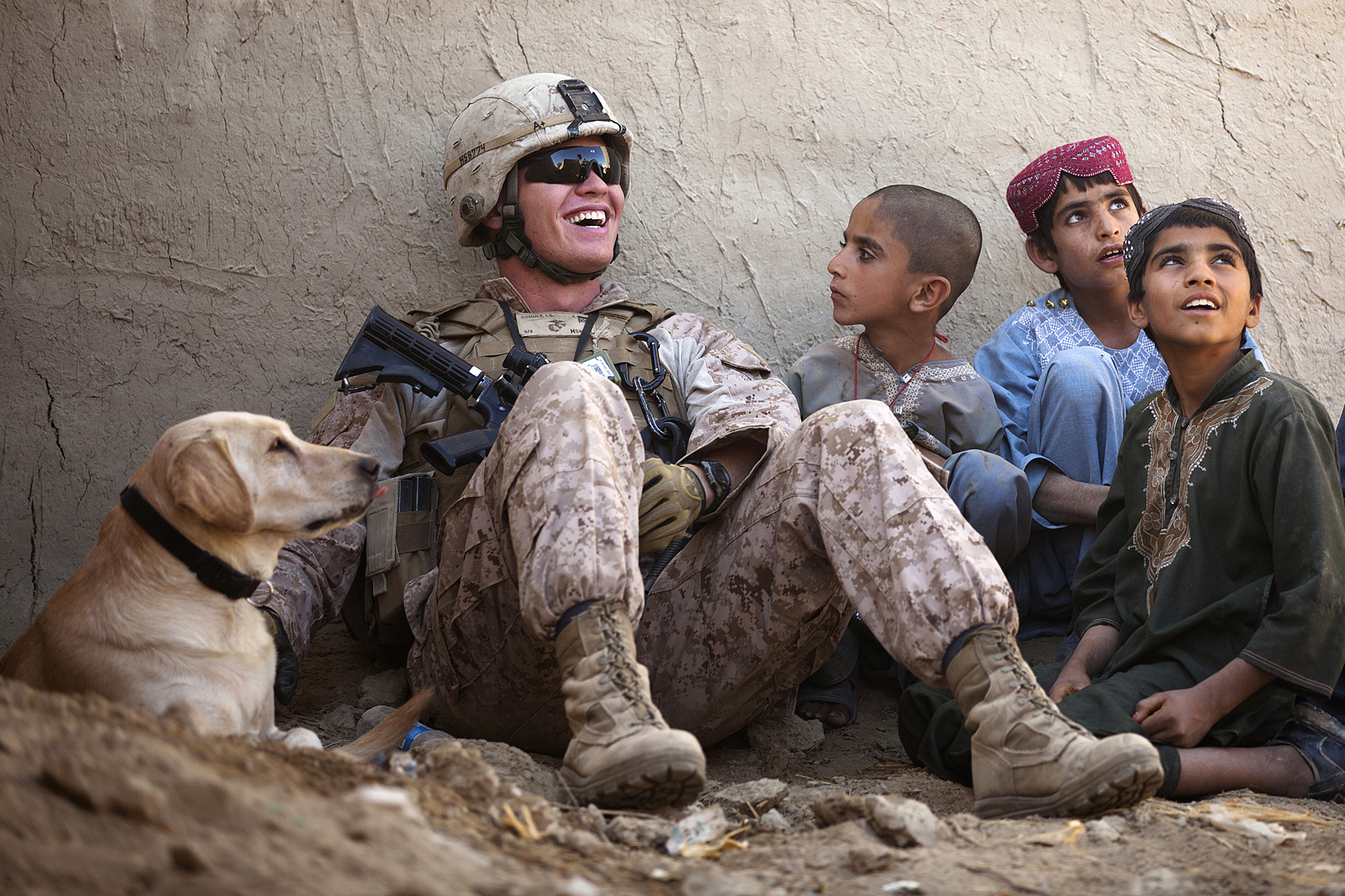 U.S. Marine Corps Lance Cpl. Isaiah Schult, an improvised explosive device dog handler, jokes with Afghan children and an Afghan National Police officer outside a local residence in Garmsir district, Helmand Province, Afghanistan, on Nov. 22, 2011. Schult is assigned to Headquarters and Service Company, 3rd Battalion, 3rd Marine Regiment.